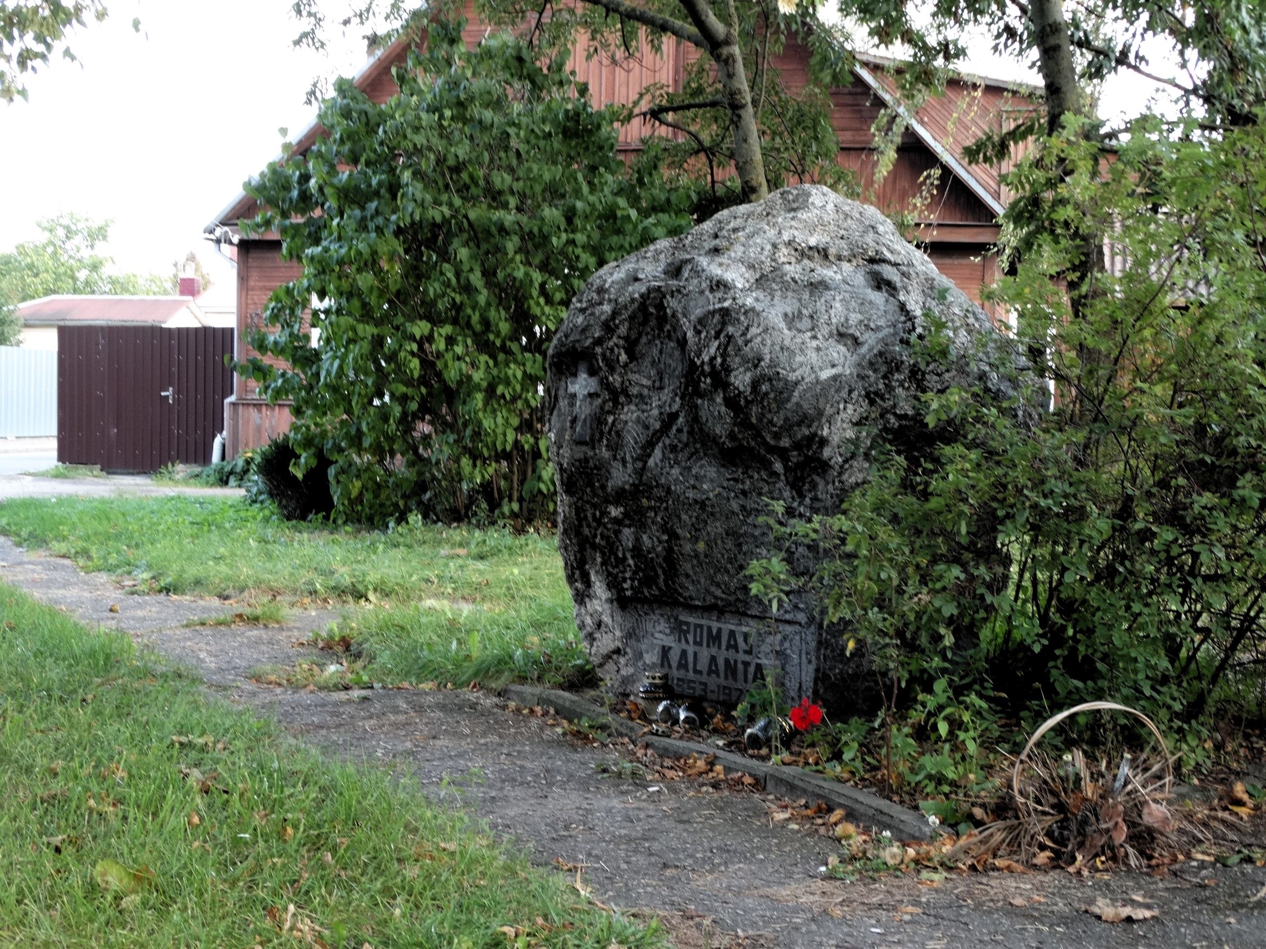 Memorial stone to dissident Romas Kalanta, Kaunas, Lithuania